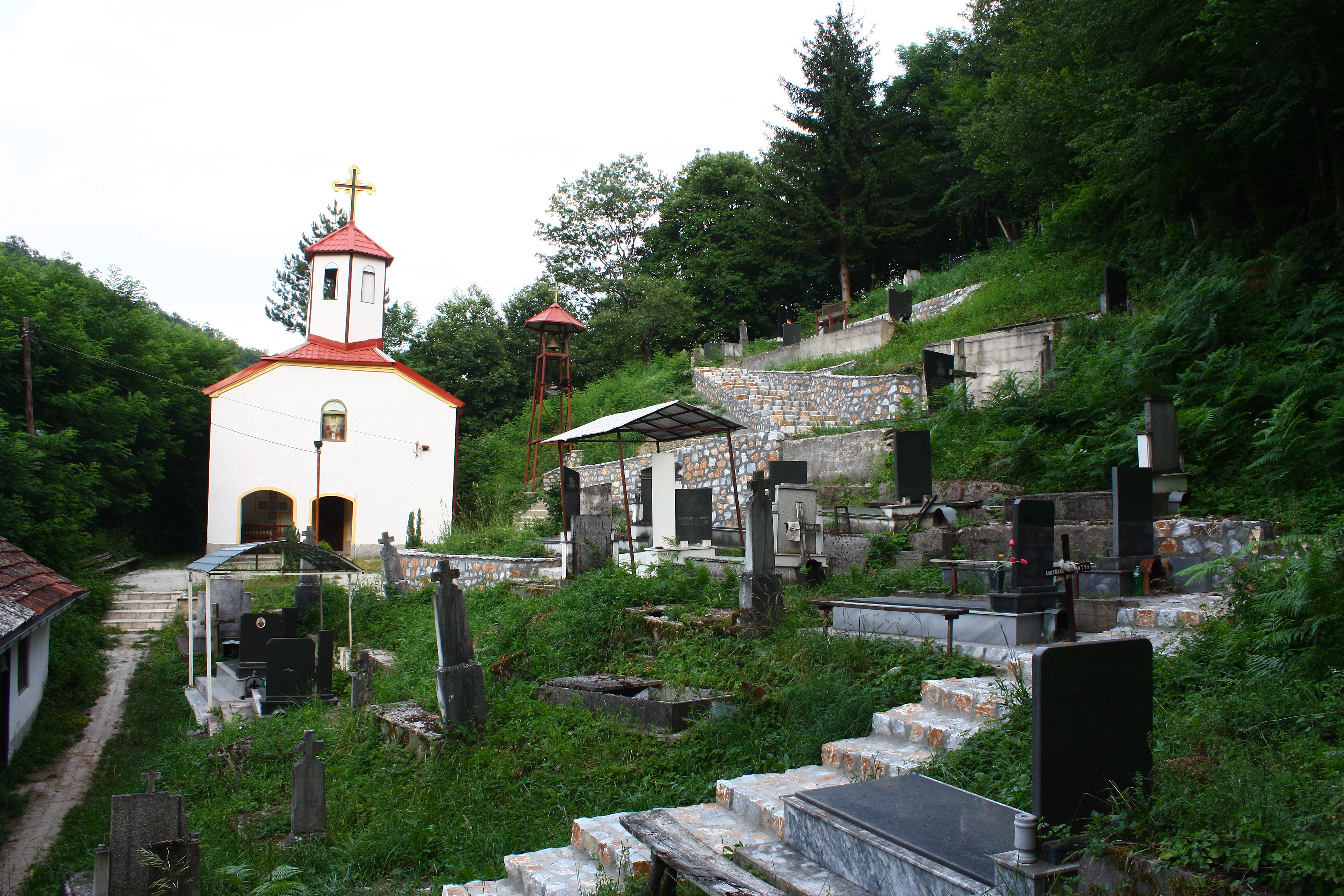 St. Nicholas Church in Lešnica, near Gostivar, Macedonia